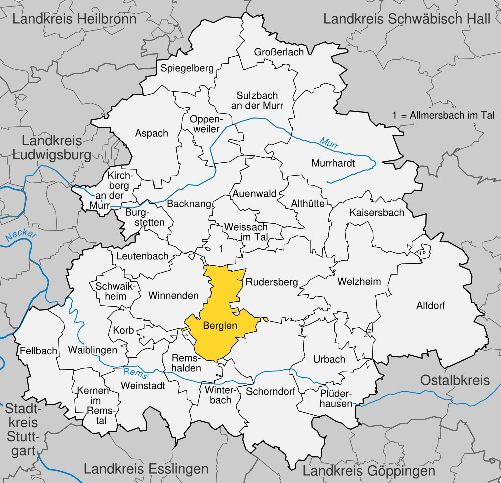 position of Berglen within the Rems-Murr-Kreis, Baden-Württemberg, Germany